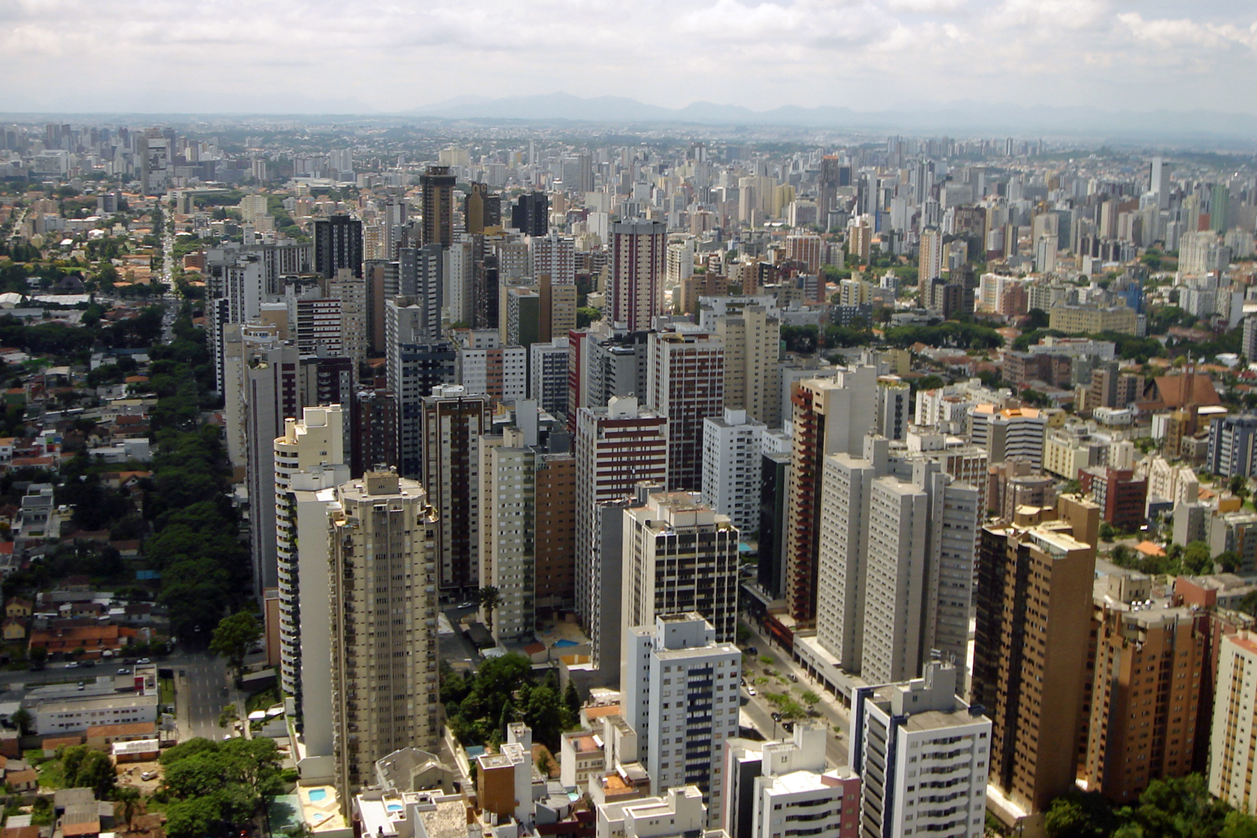 Aerial view of Curitiba, Brazil. The image illustrates how land use planning allowed high density to develop along Curitiba's BRT corridors